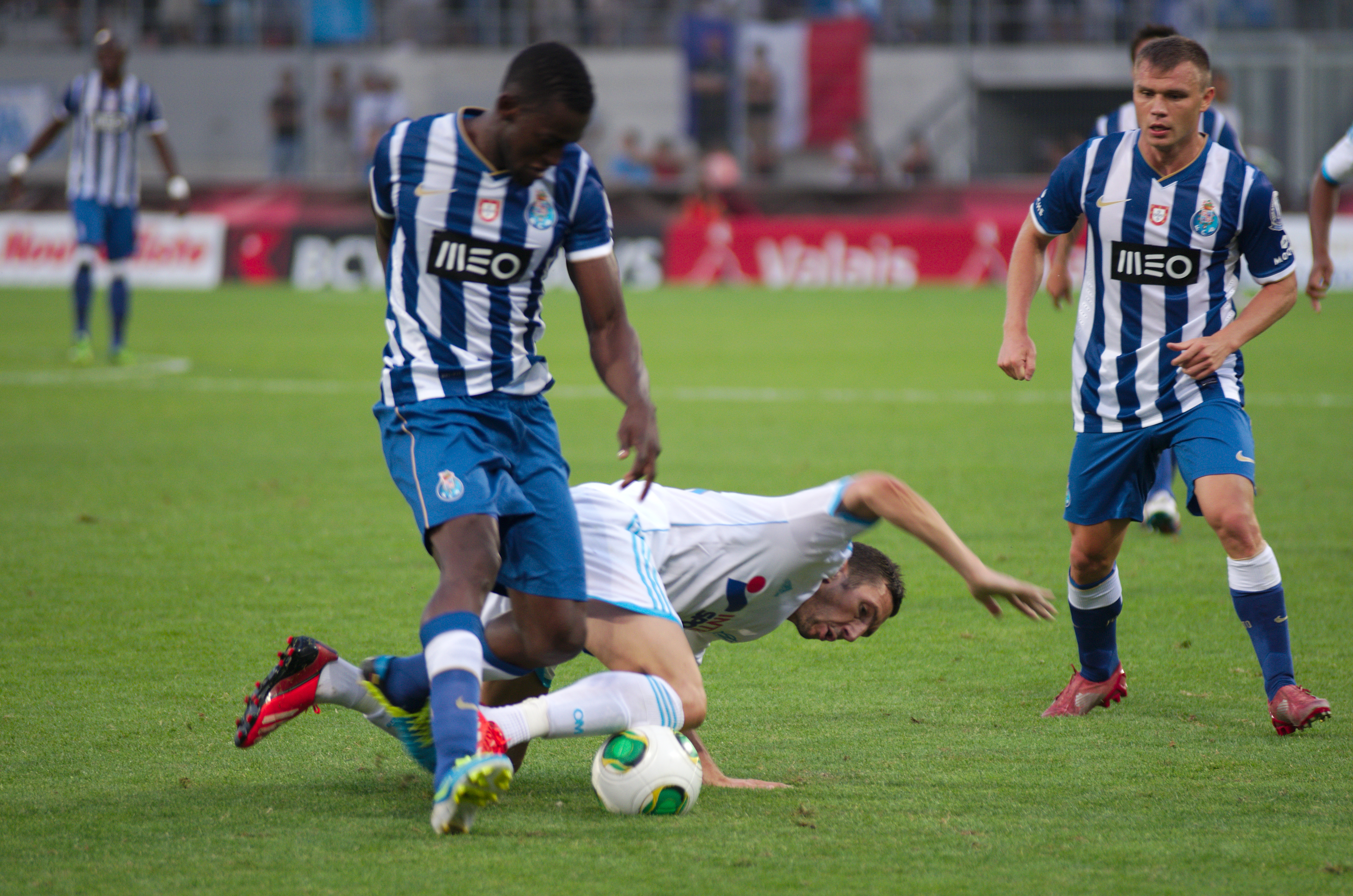 Valais Cup 2013 - OM-FC Porto - 20130713 - Jackson, Morgan Amalfitano et Marat Izmaylov